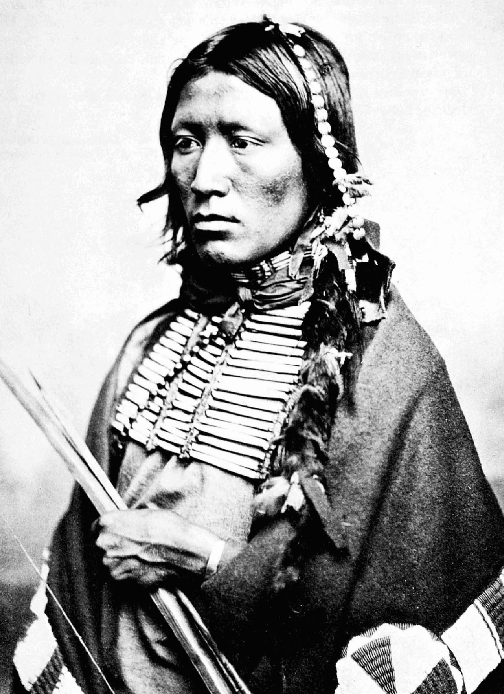 Pacer's nephew Pacer's (Iron Sack), head chief of the Kiowa-Apaches, nephew. “[...]Note the neckpiece made of short pieces of hair pipe. John C. Ewers states that this type of ornament, actually made of conch shell, was a rarity.” —Smithsonian Institution, Bureau of American Ethnology, In: Wilbur Sturtevant Nye, Plains Indian raiders : the final phases of warfare from the Arkansas to the Red River, with original photographs by William S. Soule. University of Oklahoma Press, 1st edition, 1968, ISBN 0806111755, p380.